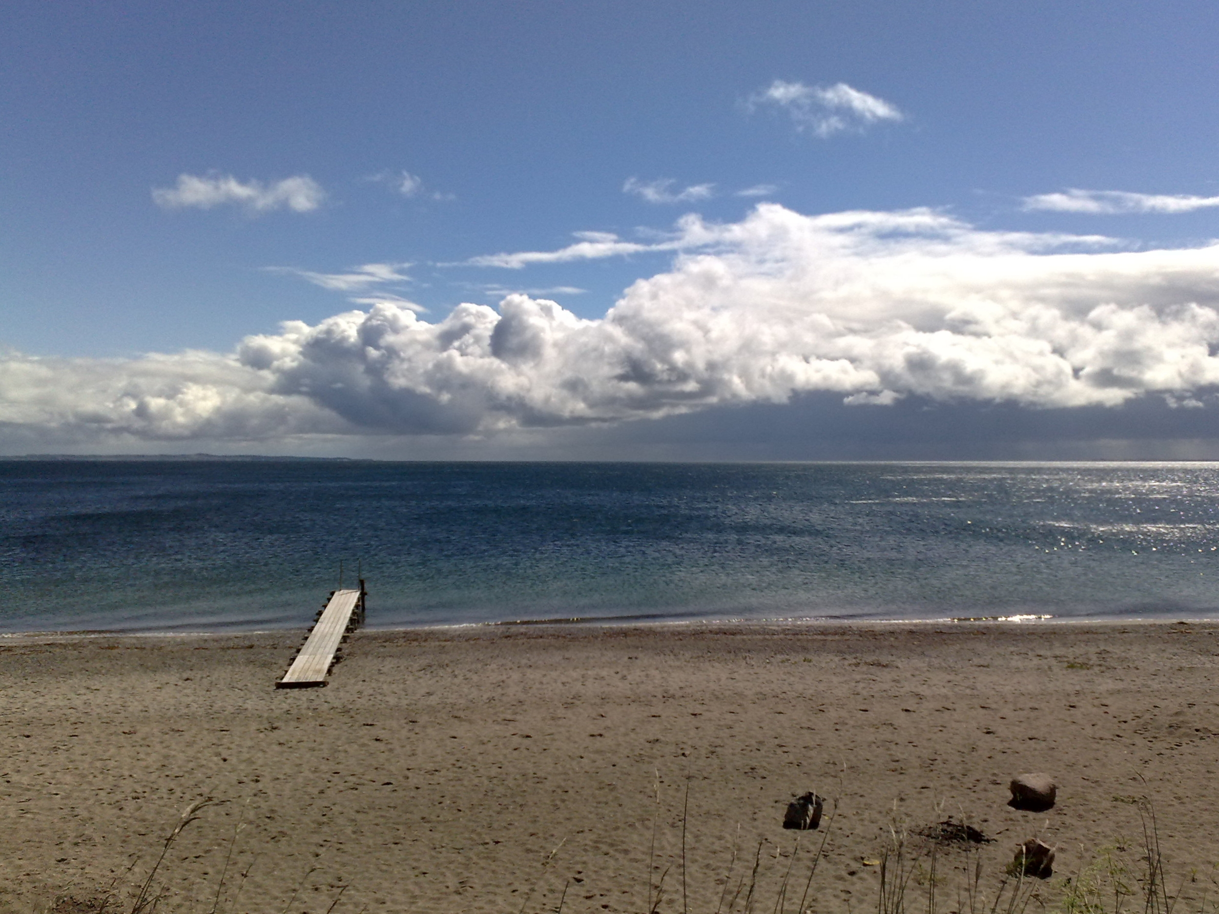 Bridge at Moesgård Beach